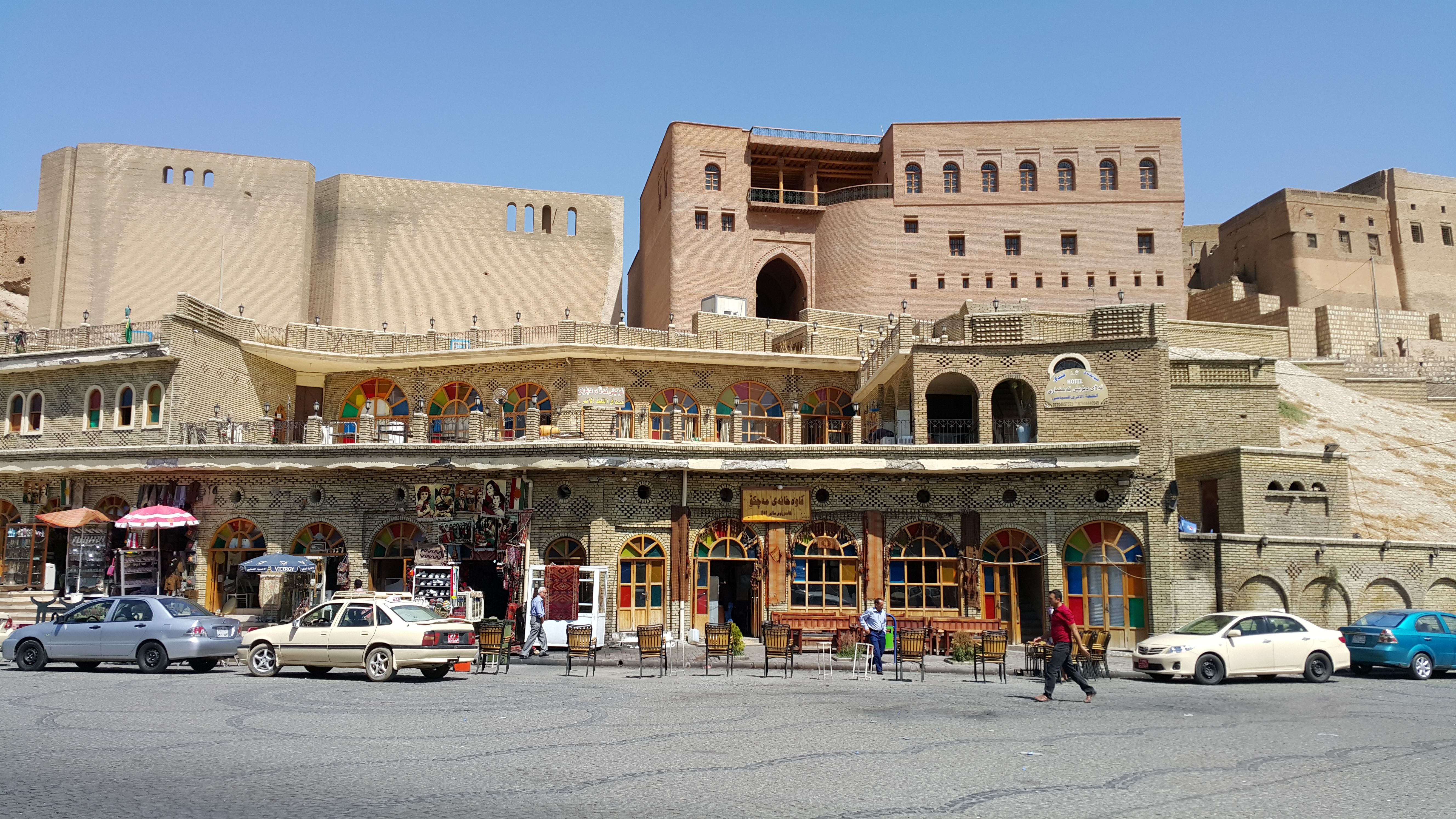 The entrance of Arbil Citadel